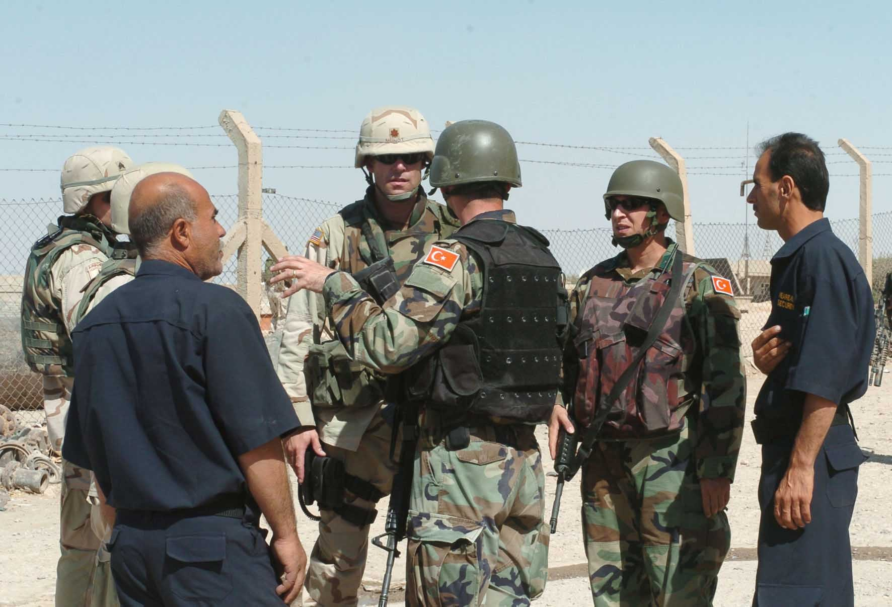 416th Civil Affairs Battalion and Turkish military observers speak with officials near a water tower in Tal Afar, Iraq. The civil affairs Soldiers are assessing the damages to local infrastructure after Multi-National Forces and Iraqi security forces launched offensive operations to rid the city of terrorists.